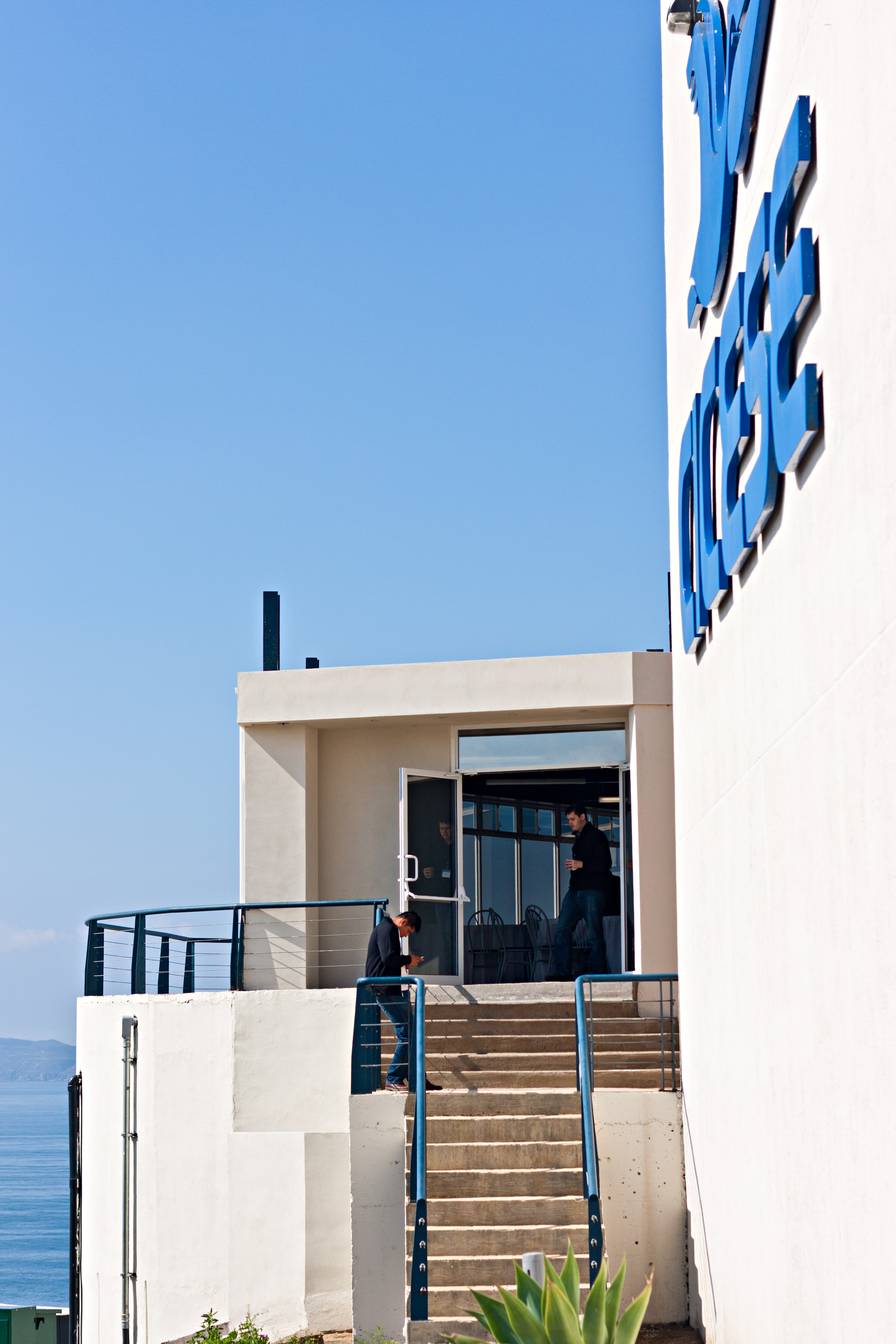 CICESE, the Ensenada Center for Scientific Research and Higher Education in Ensenada, Mexico. The view is looking west from the rear of the CICESE auditorium.